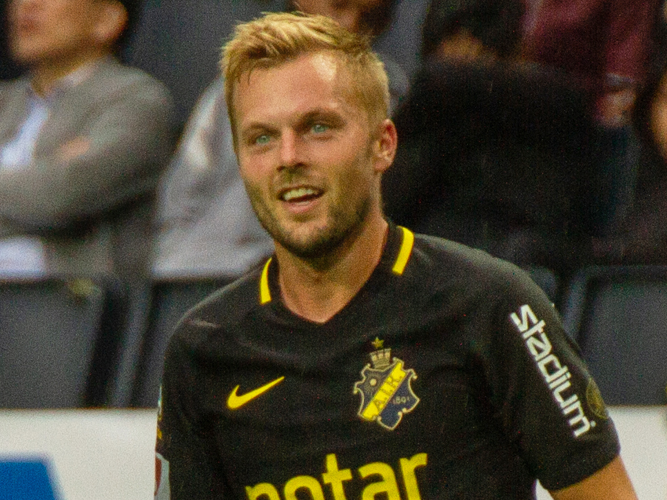 Sebastian Larsson in August 2018